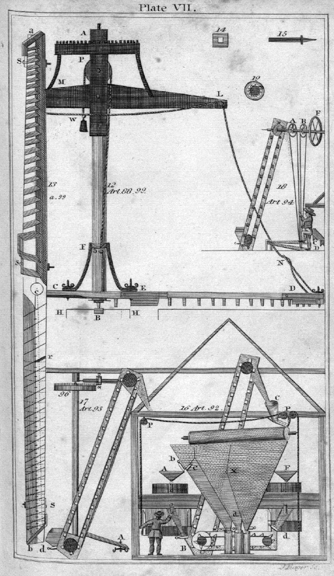 A diagram of Evans' 'hopper boy' and the automated bolting process, which appeared in the Young Mill-wright and Miller's Guide. This copy from the 1834 edition.